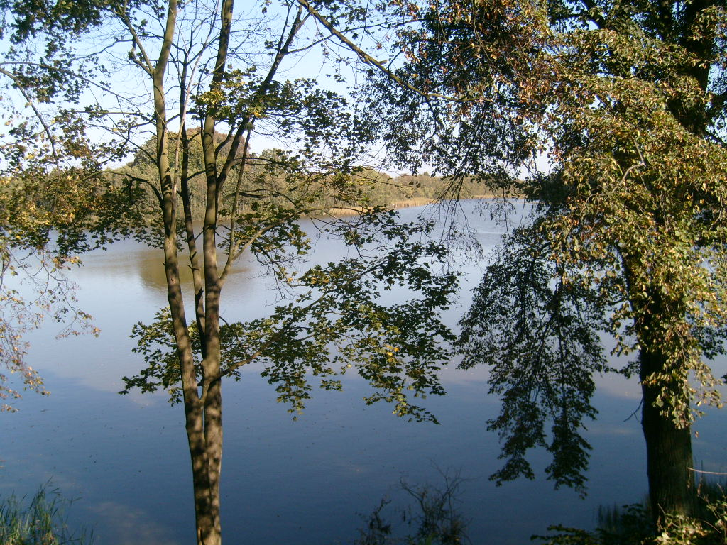 The lake in Nowy Jasiniec (Poland), called Castle Lake.